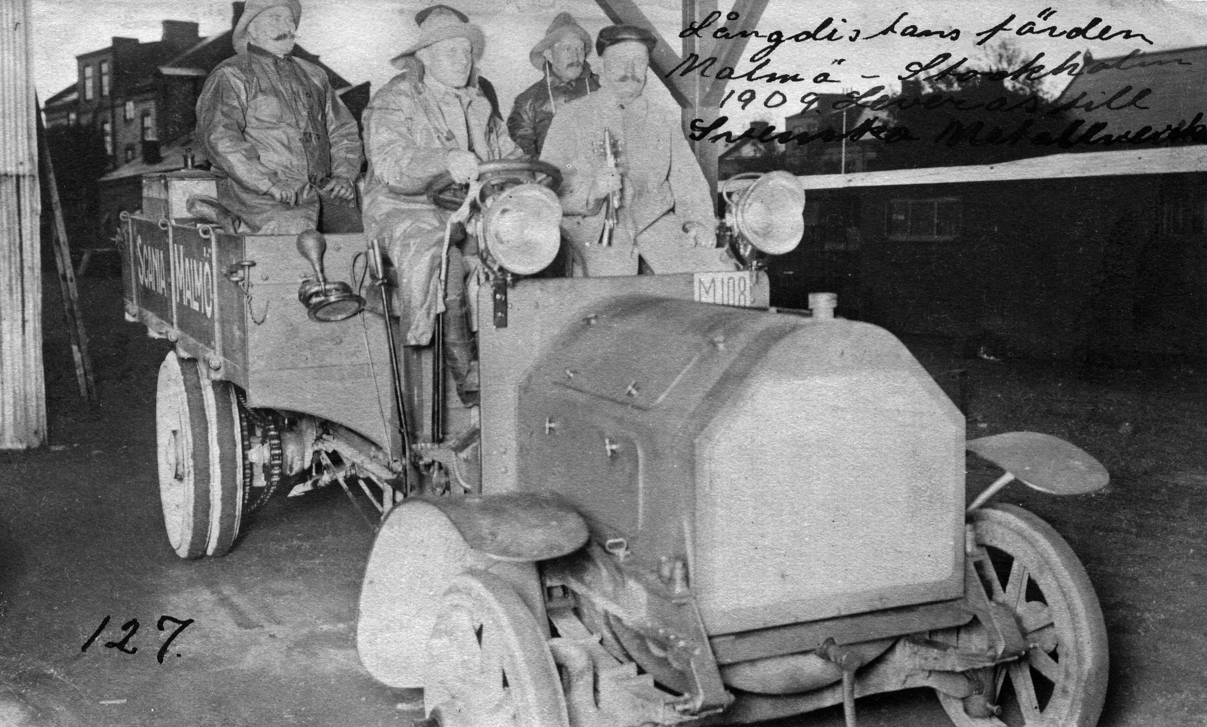 The first lorry transport through Sweden in 1909.